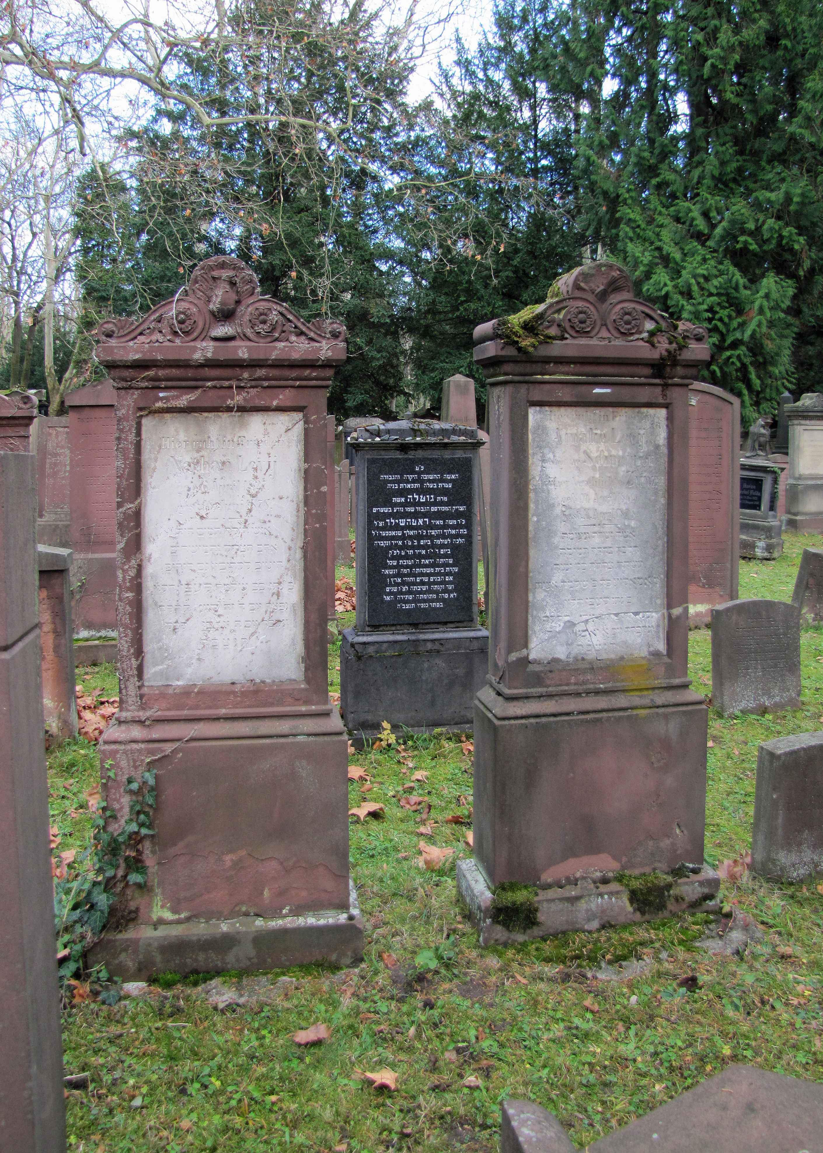 (Old) Jewish cemetery at Rat-Beil-Strasse in Frankfurt am Main, Germany. Tombstone of Gutle Rothschild (in the middle of "Schnapper" family graves).